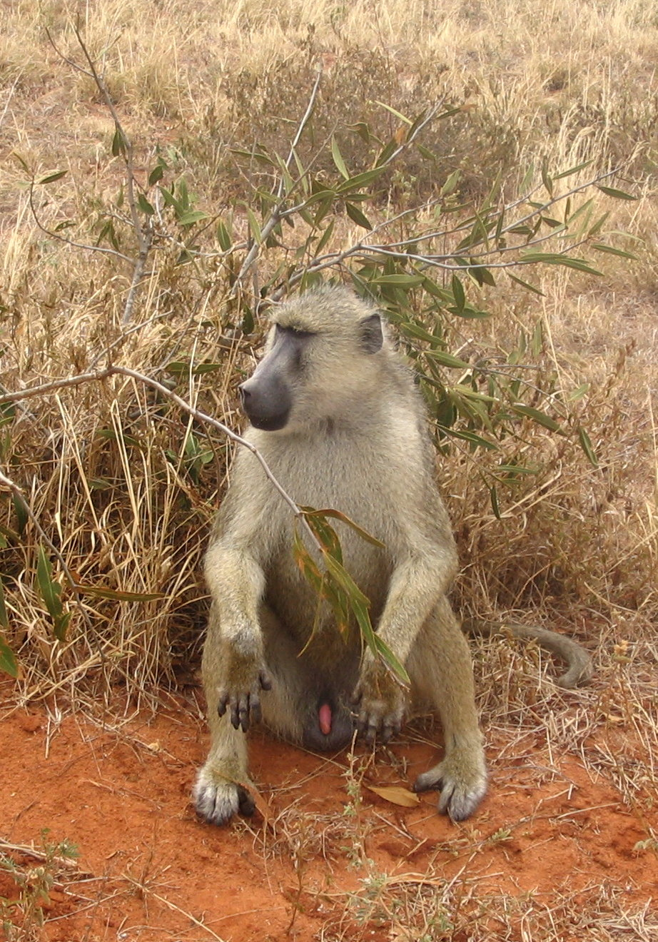 Papio cynocephalus (Yellow Baboon) sitting by the side of a dirt road in Tsavo East National Park, Kenya.